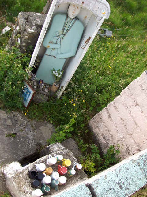 Tobar Naomh Ciaran St. Ciaran's Well: on the roadside near Shawly.